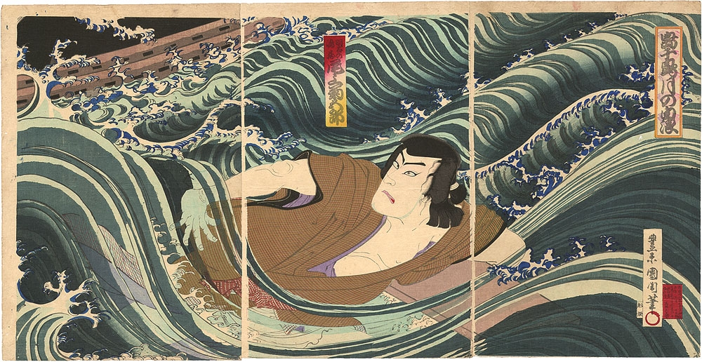 Triptych by Toyohara Kunichika: Onoe Kikugoro V as Akashi no Naruzo in the play Shima Chidori Tsuki no Shiranami